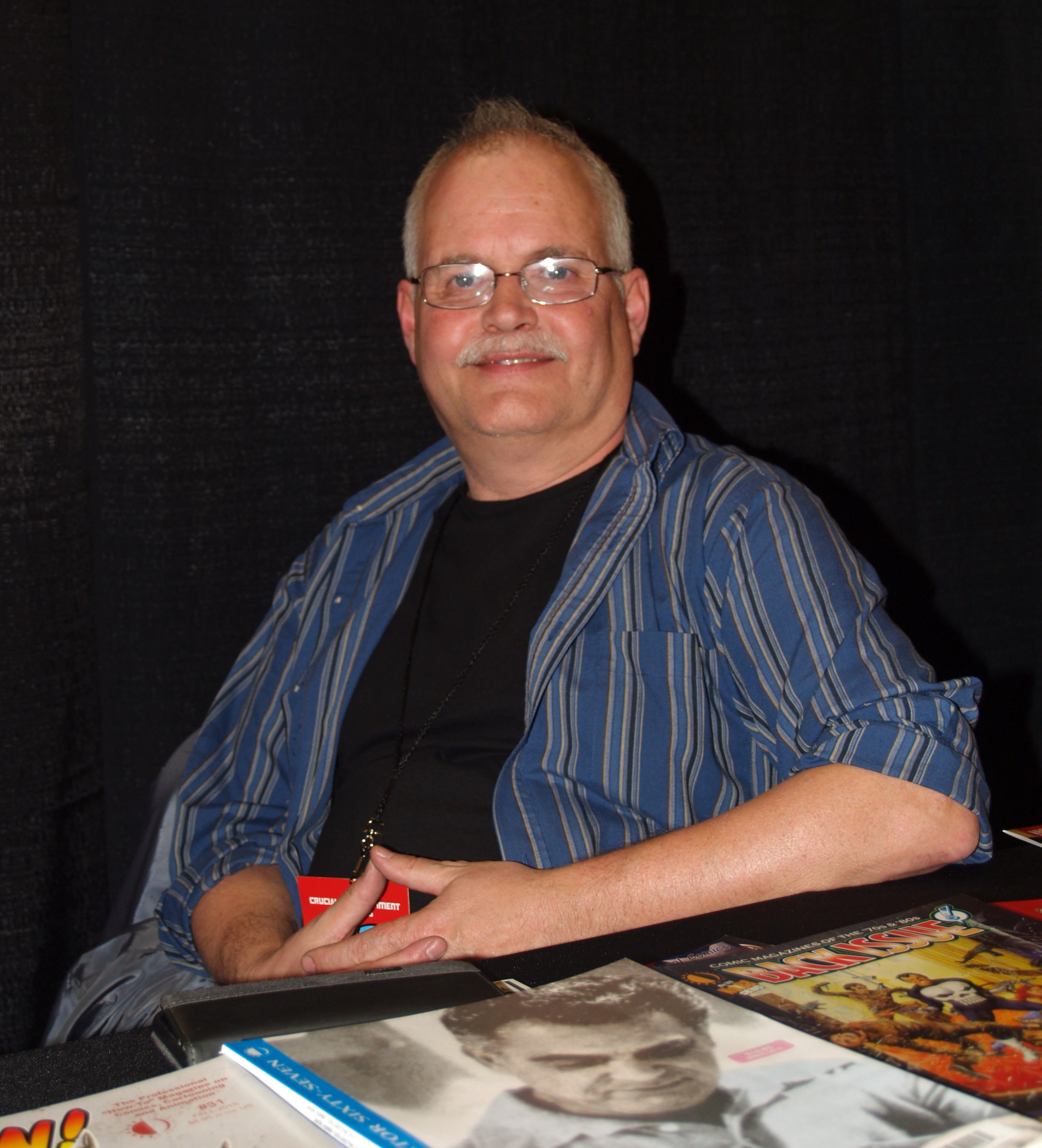 Magazine publisher Jon B. Cooke at the Meadowlands Exposition Center in Secaucus, New Jersey on April 16, 2016, Day 1 of the 2016 East Coast Comicon. This photo was created by Luigi Novi. It is not in the public domain, and use of this file outside of the licensing terms is a copyright violation.